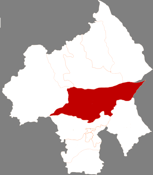 Location of Ongniud Banner in Chifeng City, China